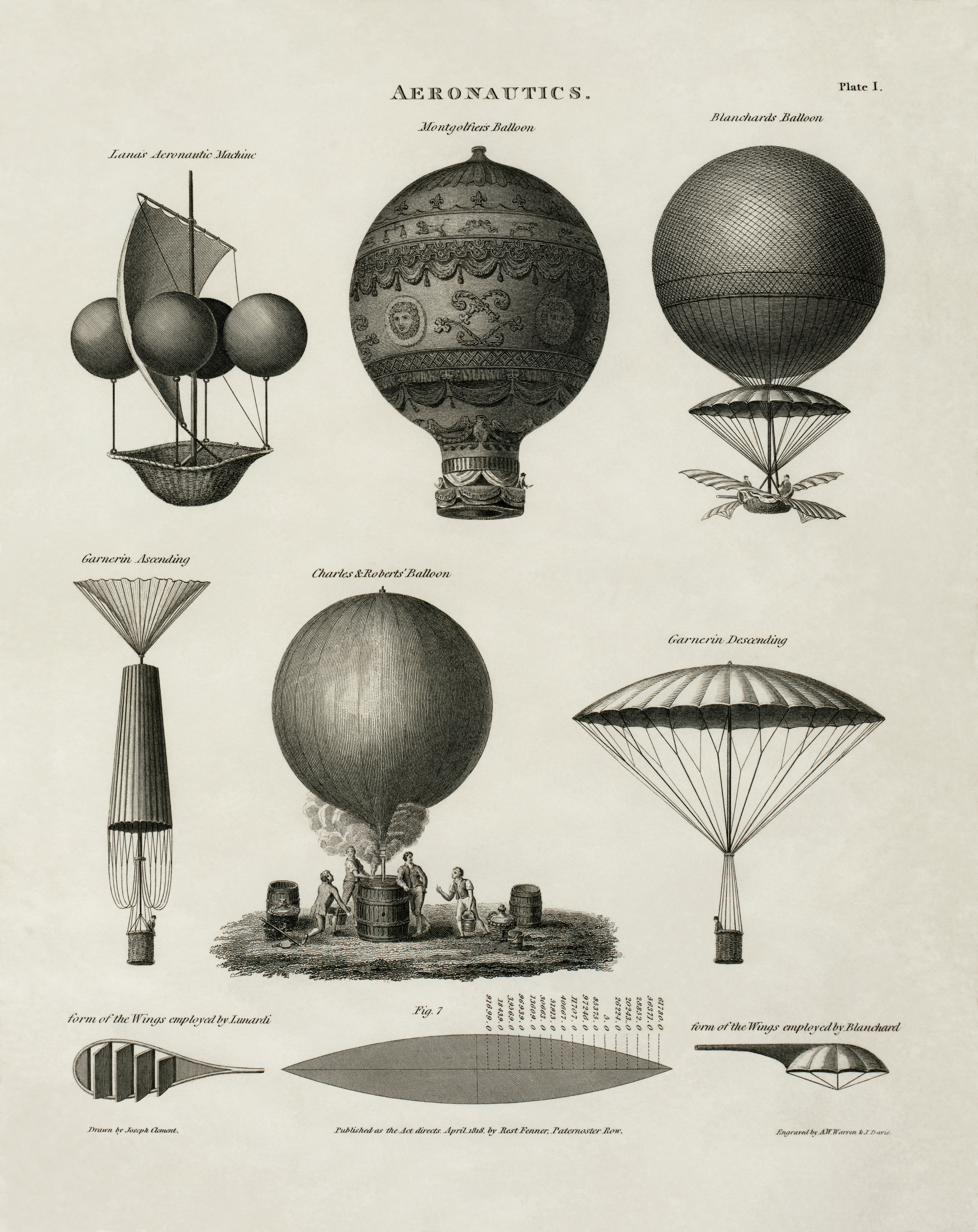 Technical illustration shows early balloon designs: "Lana's aeronautic machine," "Montgolfiers' balloon," "Blanchard's balloon," "Garnerin ascending [and] descending" in his parachute, the "Charles & Roberts' balloon" being inflated, the "form of the wings employed by Lunardi," and the "form of the wings employed by Blanchard."